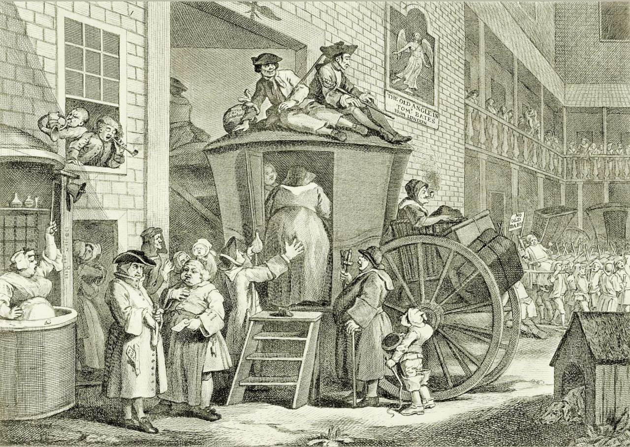 The stagecoach, or a rural farm Tavern. The print shows busy activity around a stagecoach.